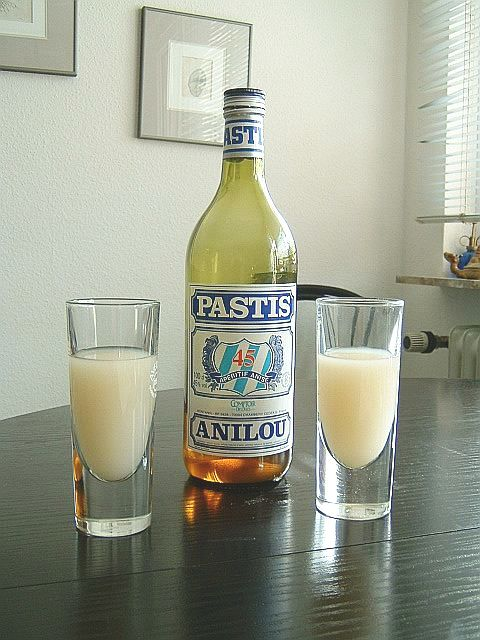 Bottle of pastis with two filled glasses.